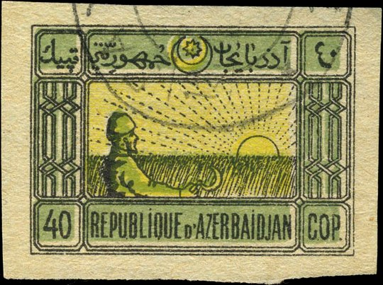 1920 Azerbaijan, 40k Farmer at sunset. Shift of black print. Likely a Soviet govt. re-issue, Michel 3y